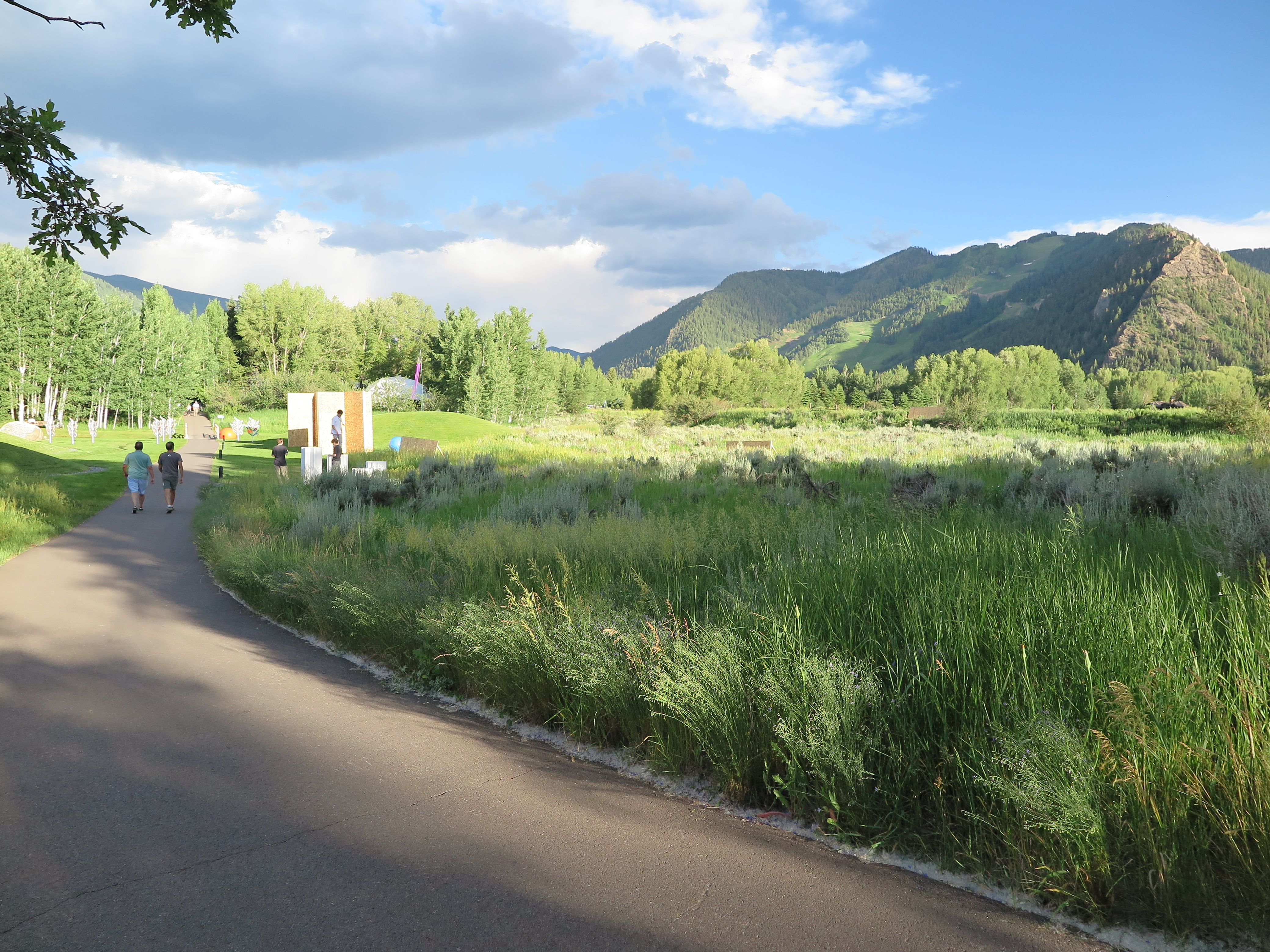 Picture from the Aspen Institute campus in Aspen, Colorado. Anderson Park at the Aspen Institute.